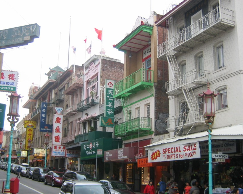 Description : Chinatown, San Francisco, California, USA. Author : own work, Urban. I took this picture on April 2006.